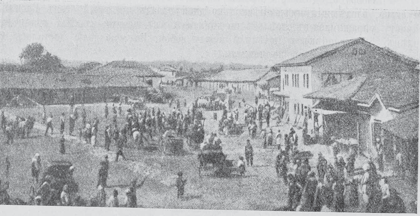 View of Kumanovo, Macedonia c. 1913.